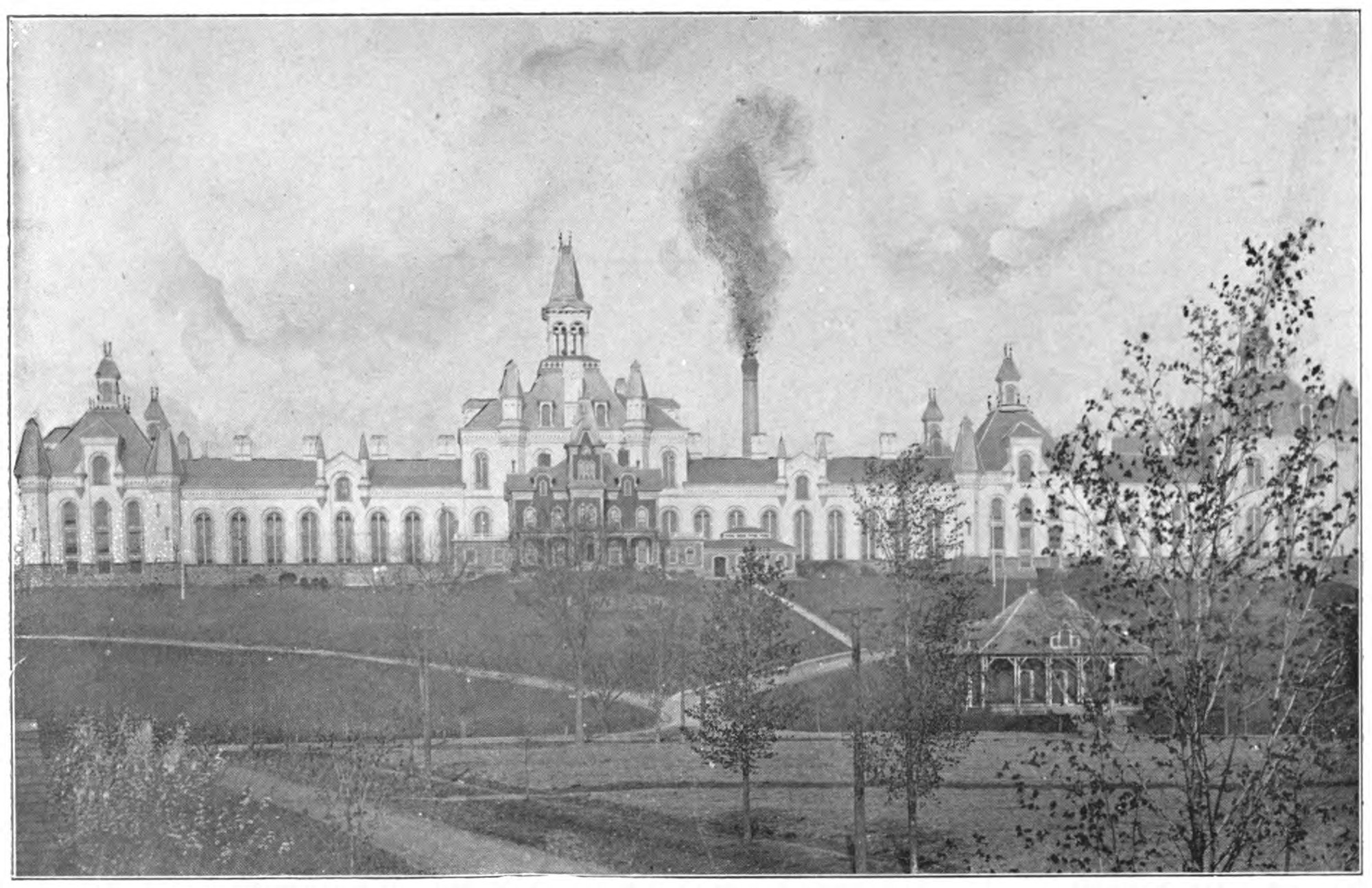 Main building, Elmira Reformatory, Elmira, New York